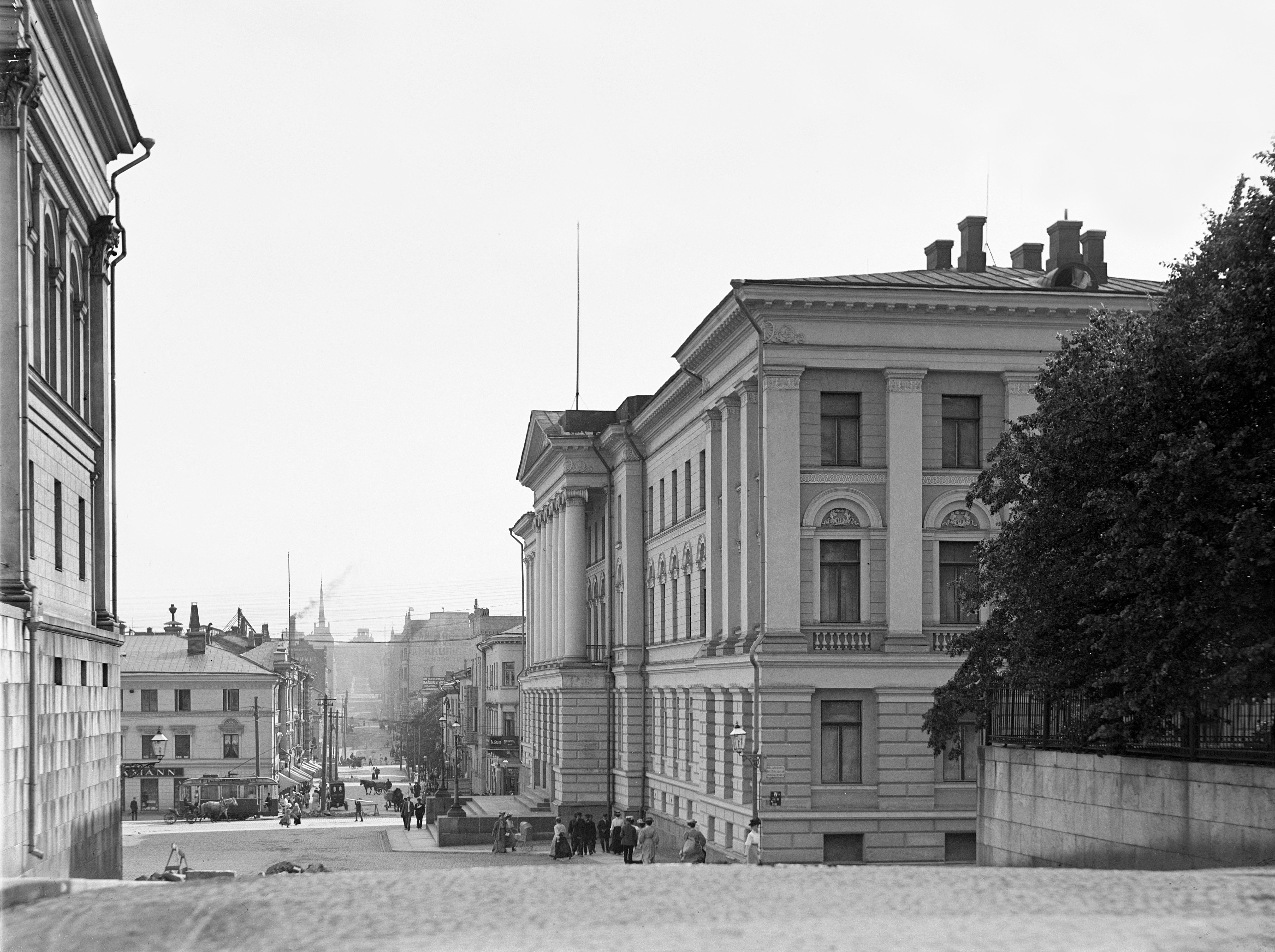 University Building on Unioninkatu in Helsinki, Finland.